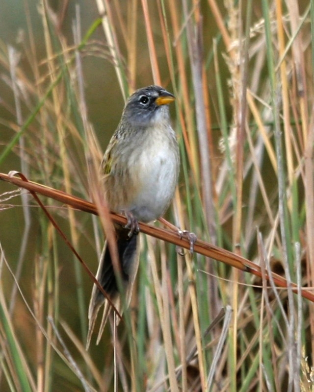 Grey-cheeked Grass-finch (Emberizoides ypiranganus) at Ibera Marshes, Argentina.